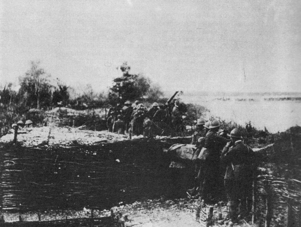 Czechoslovak soldiers in the trenches on the Piave